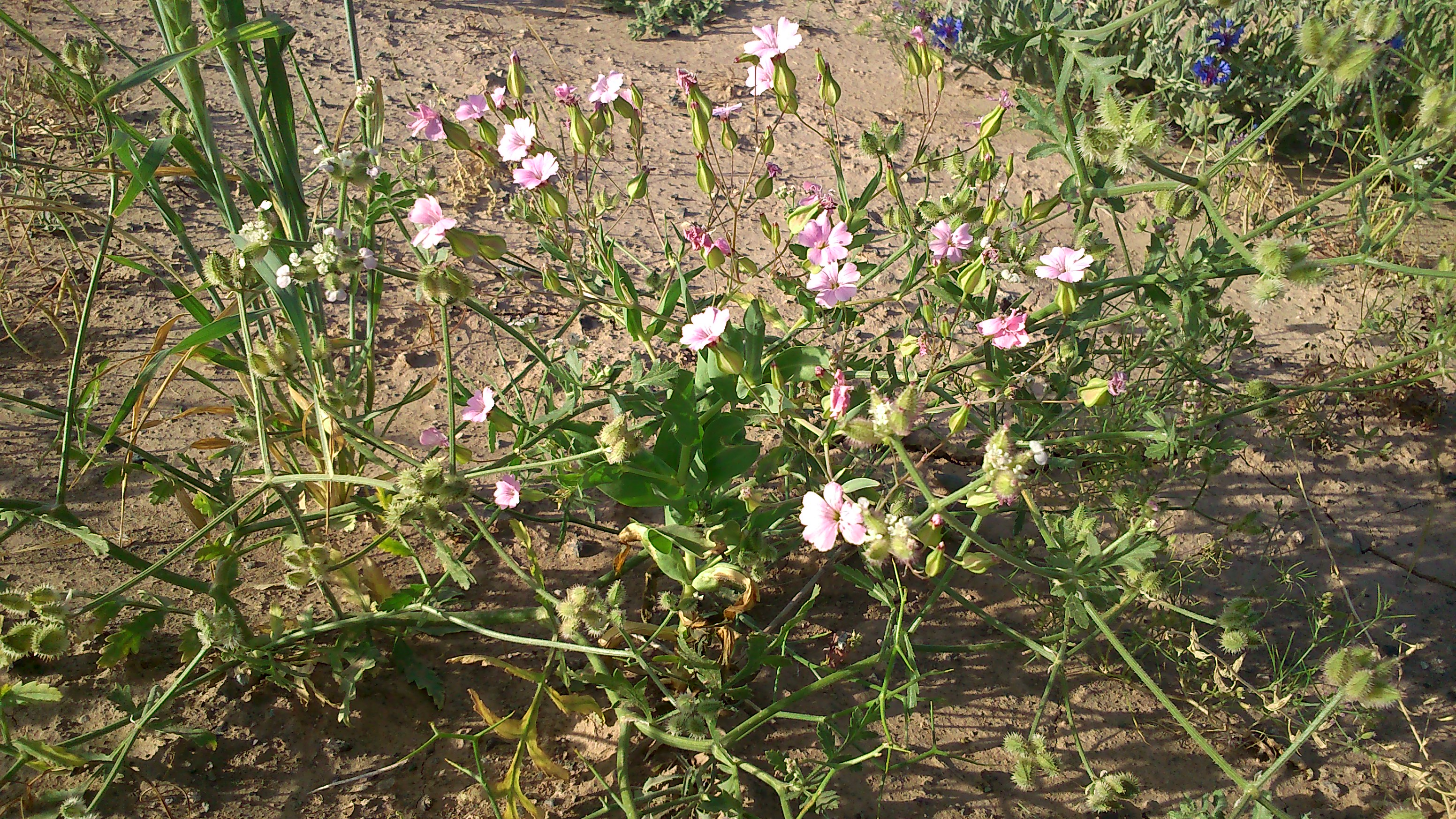 An unknown plant for now!